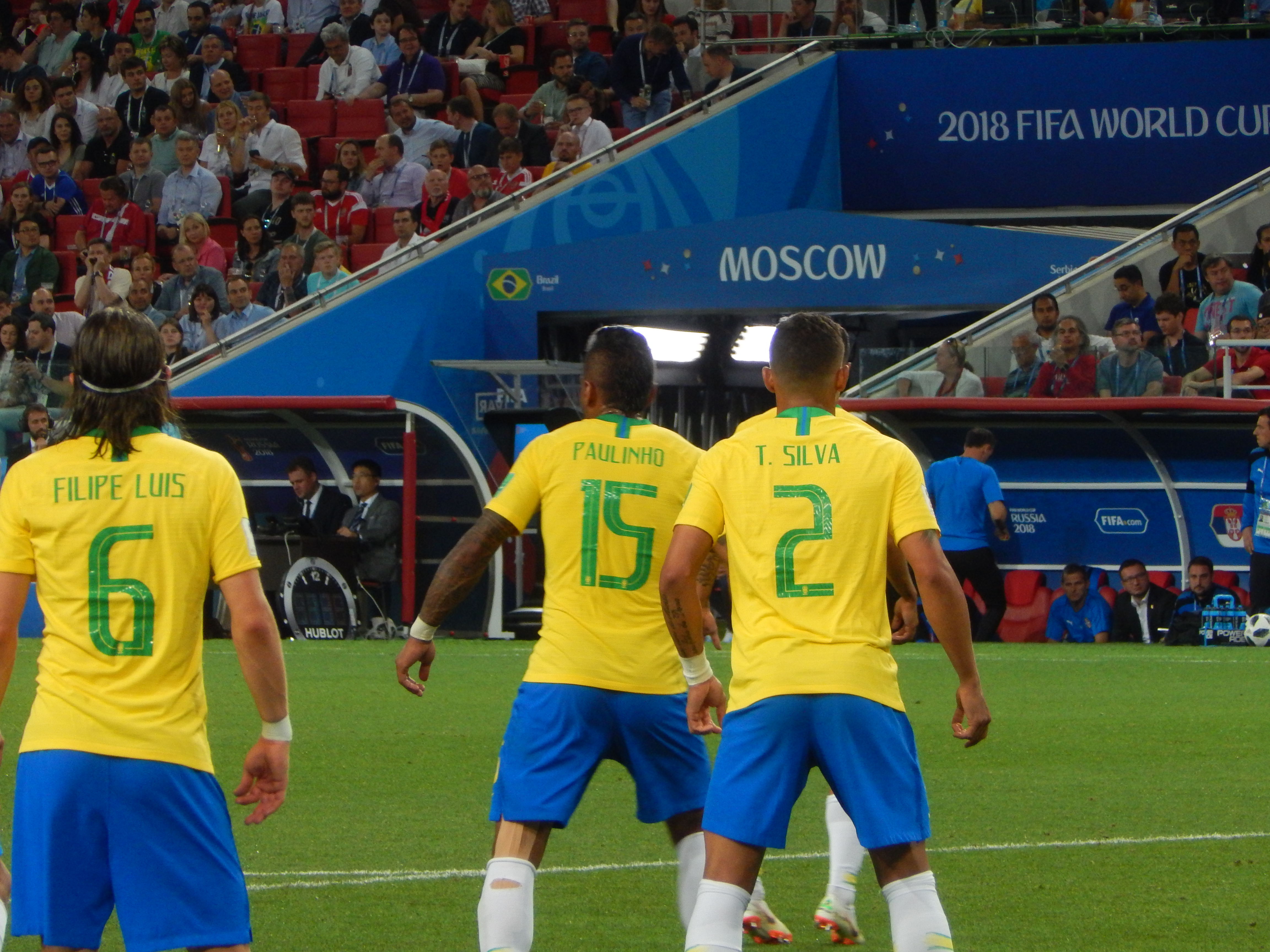 FIFA World Cup 2018, Group E, Serbia vs. Brazil